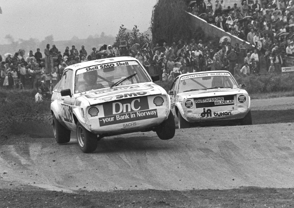 Norwegian Kjetil Bolneset (left; Ford Escort RS1800) and Swede Bertil Molander (right; Ford Escort RS1800) pictured during the 1981 European Rallycross Championship round of Denmark at the Ring Djursland near Grenaa, taken by myself. Scan of a 13x18cm black and white print, produced by myself.